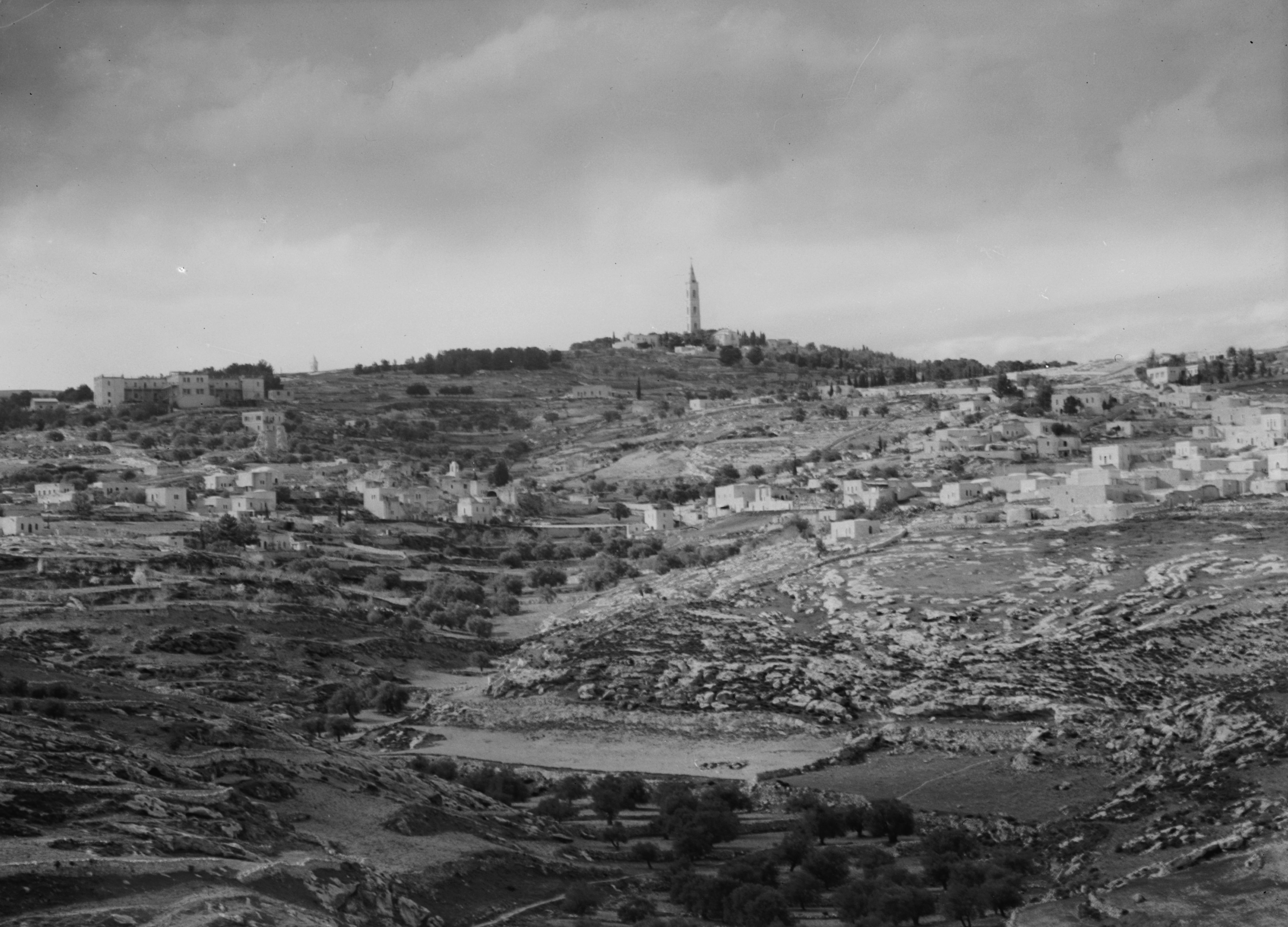 Distant view, Bethany & Olivet from Abu Dis slope